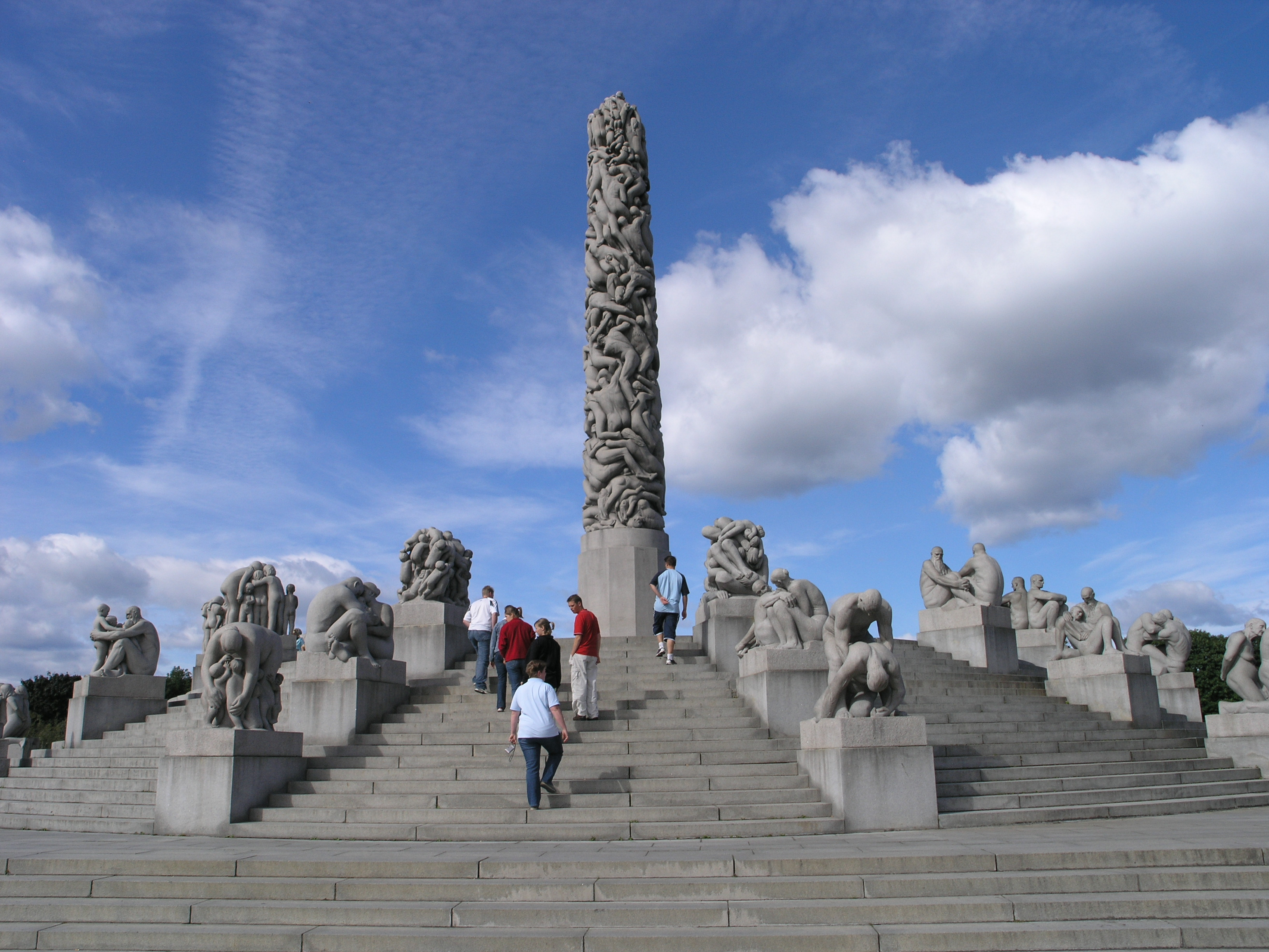 The monolith